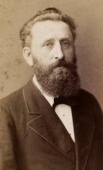 Ludwig Friederichsen's portrait